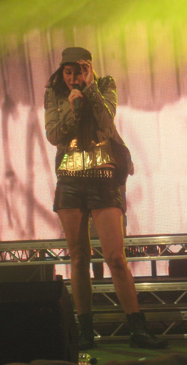 Tulisa performing with N-Dubz in Pilton,England